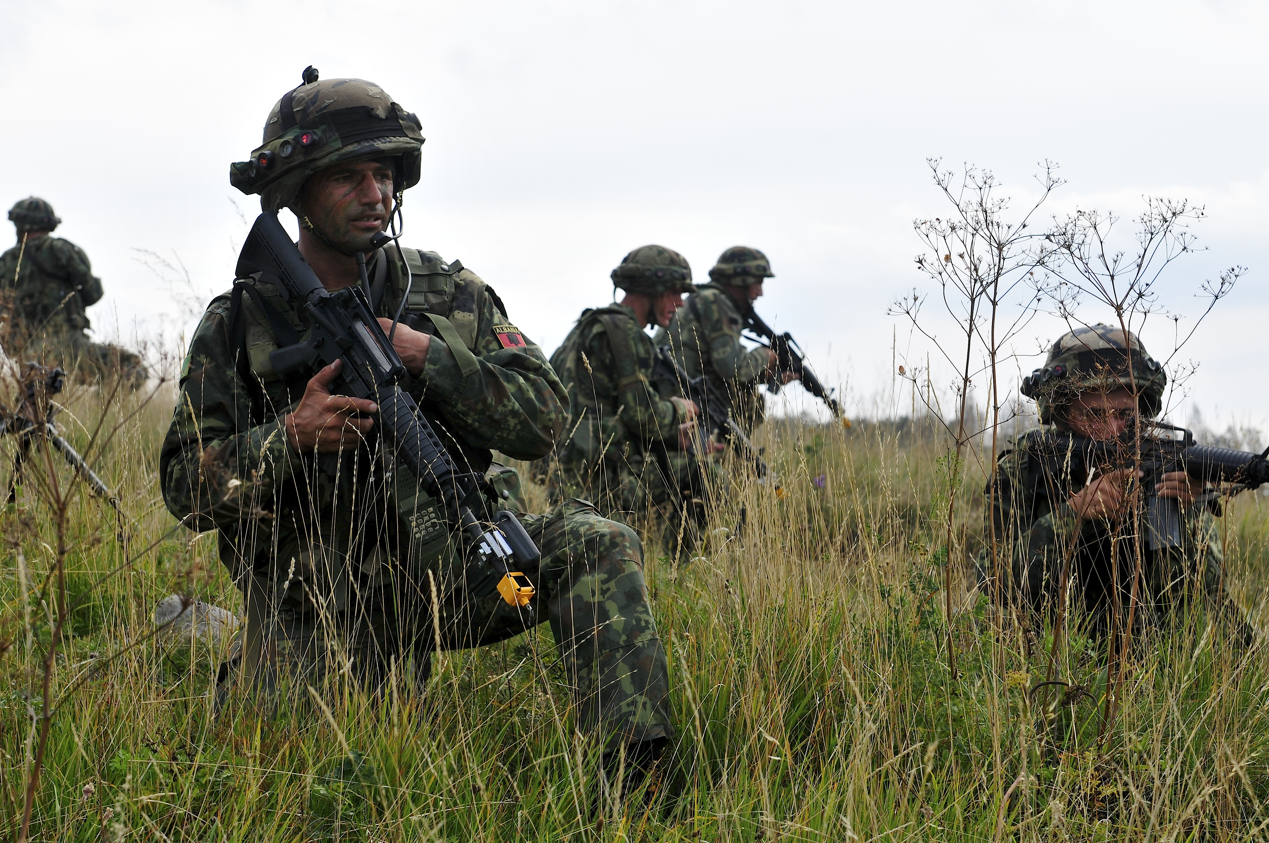 POSTOJNA, Slovenian - Slovenia was the host to Albanian and British Soldiers for situational training exercise drills as part of the multi-national exercise Immediate Response 15 near Postojna, Slovenia September 13, 2015. Immediate Response 15 is a multinational, brigade-level exercise utilizing computer-assisted simulations and field training exercises spanning two countries. The exercises and simulations are built upon a scenario designed to enhance regional stability, strengthen partner capacity and improve interoperability between partner nations. Immediate Response is an annual exercise, and the fifth iteration is scheduled to run Sept. 9-22, 2015. (U.S. Army photo by Sgt. 1st Class Walter E. van Ochten)